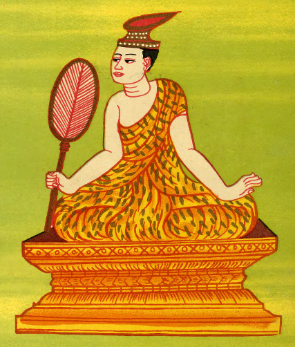 Htibyusaung nat (spirit), th in the official pantheon of Burmese nats